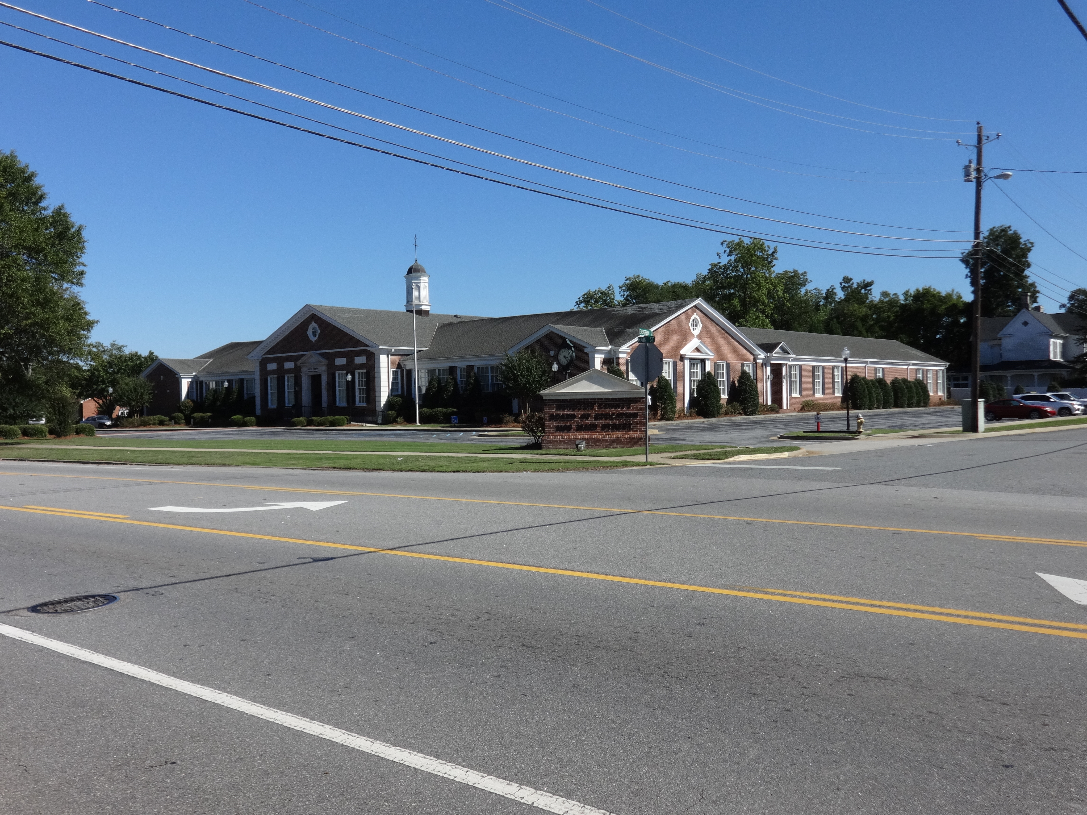 Houston County Board of Education, 100 Main St., Perry, Houston County, Georgia